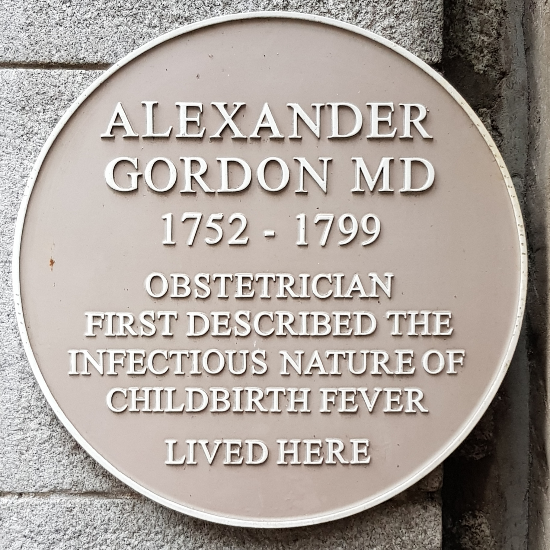 Commemorative plaque to Alexander Gordon